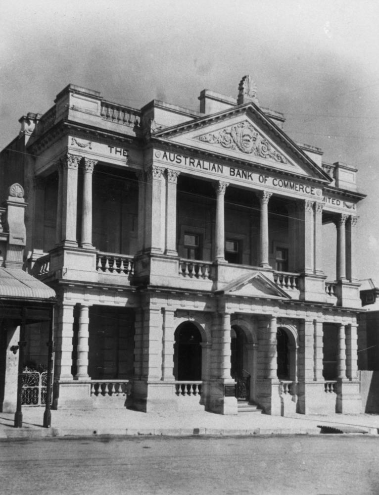 Neo-Classical facade of the Australian Bank of Commerce in Charters Towers, ca. 1920. Erected in 1891 in Mosman Street, it was originally known as the Australian Joint Stock Bank. From 1910 it was knowns as the Australian Bank of Commerce.